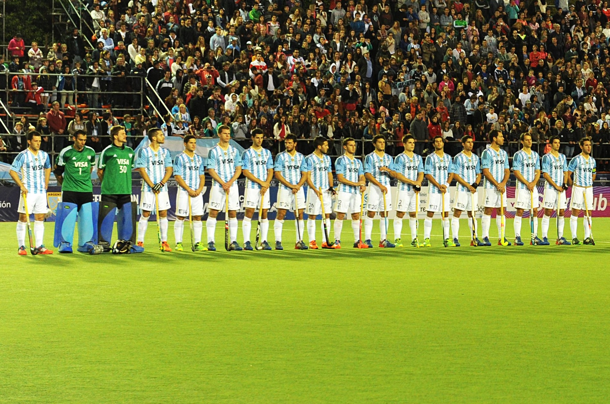 Argentina - Alemania 2014-15 Men's FIH Hockey World League Semifinals CeNARD pitch, Buenos Aires City, Argentina Match: Argentina 4 - Germany 3 Match report: [1]